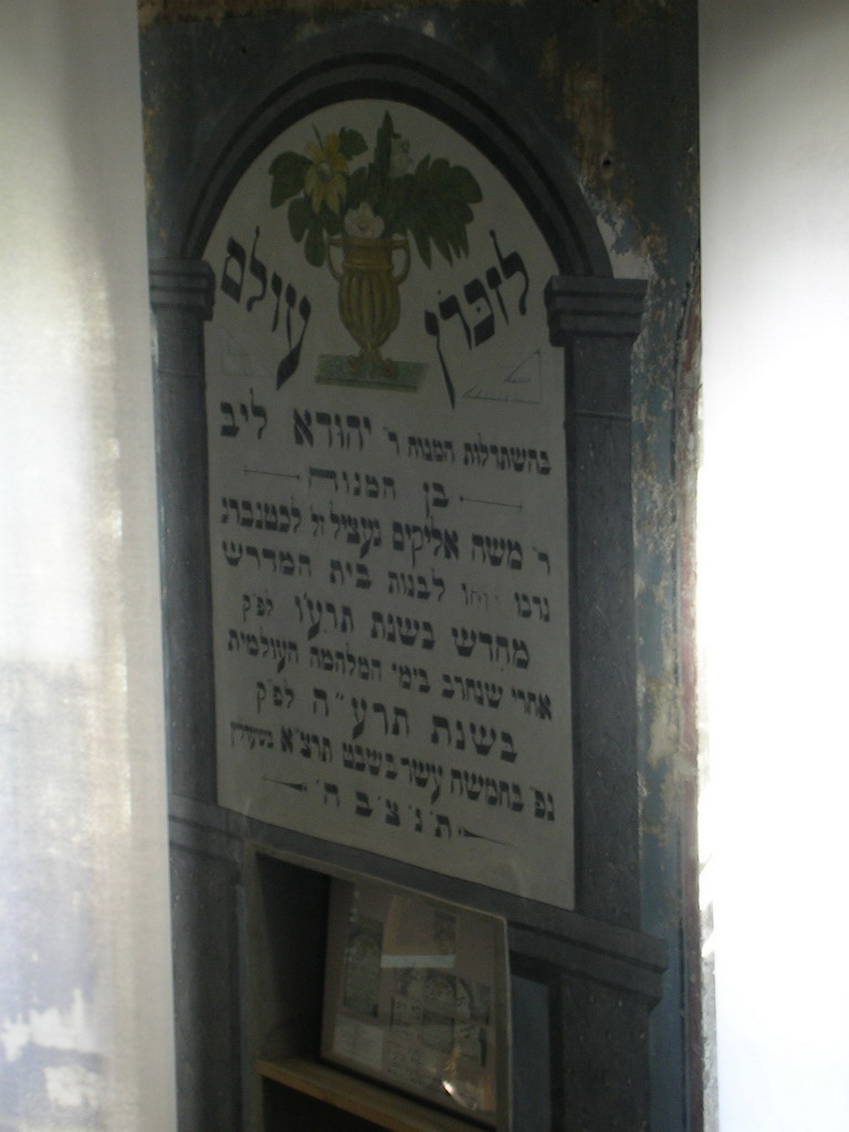 Small Synagogue in Włodawa, Poland. Foundation inscription after restoration.